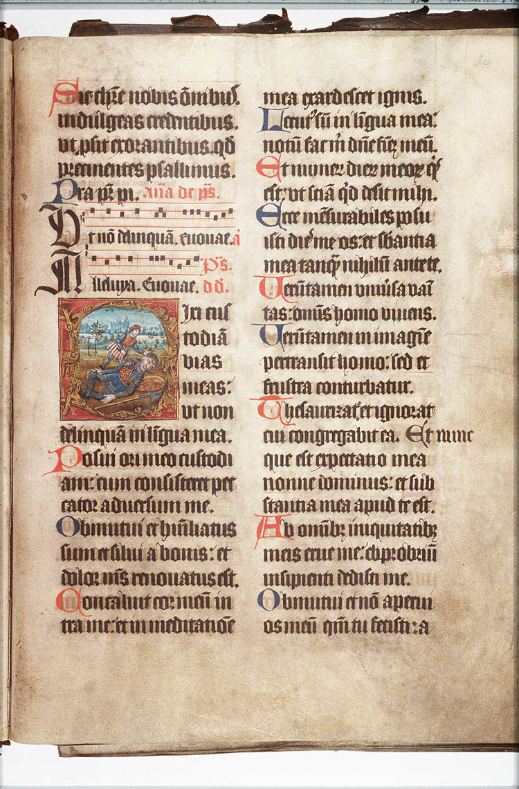 The Hague, KB : ms. 78 A 32 Choir psalter and hymnal, Franciscan use. 482x360. Probably made for the observant friars of the monastery Slavante, Lichtenberg near Maastricht. Vellum, ff. 154. This is folio 36r. Psalm 38/Vulgate; Psalm 39/Hebrew. Historiated Initial D ("dixi custodiam vias meas ut non delinquam in lingua mea posui ori meo custodiam cum consisteret peccator adversum me" ["I said: I will take heed to my ways: that I sin not with my tongue. I have set guard to my mouth, when the sinner stood against me."]). Scene with David beheading Goliath.